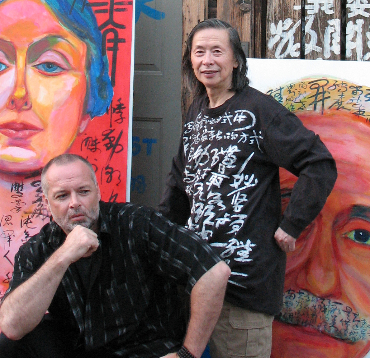 The Chinese poet Huang Xiang and American artist William Rock with two of their collaborative Century Mountain portraits, Isadora Duncan and Albert Einstein.